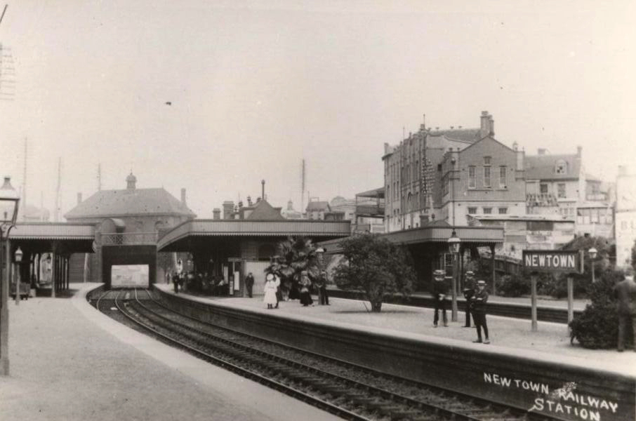 Newtown railway station c.1914.